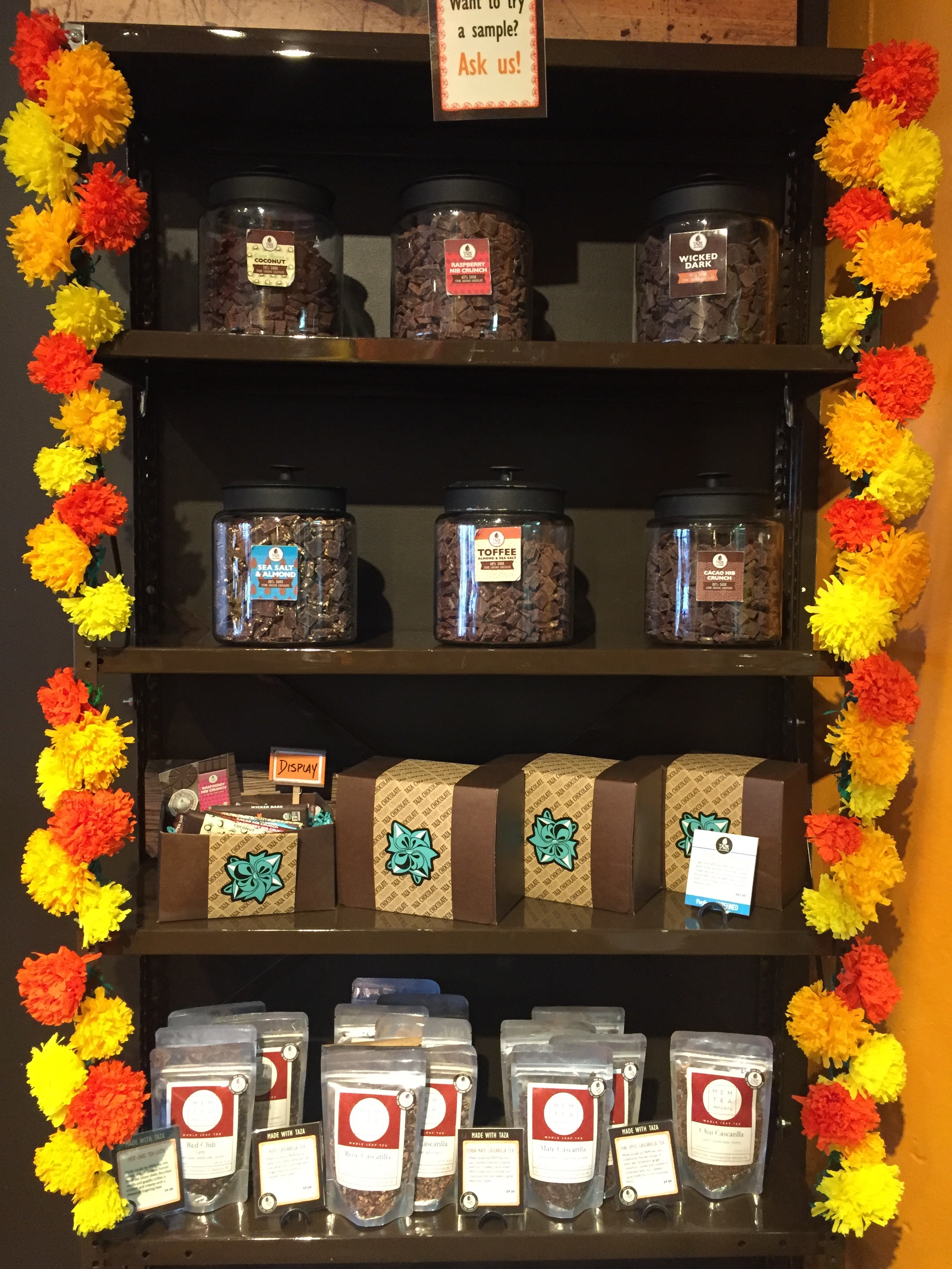 Variety of chocolate in Taza Chocolate Factory